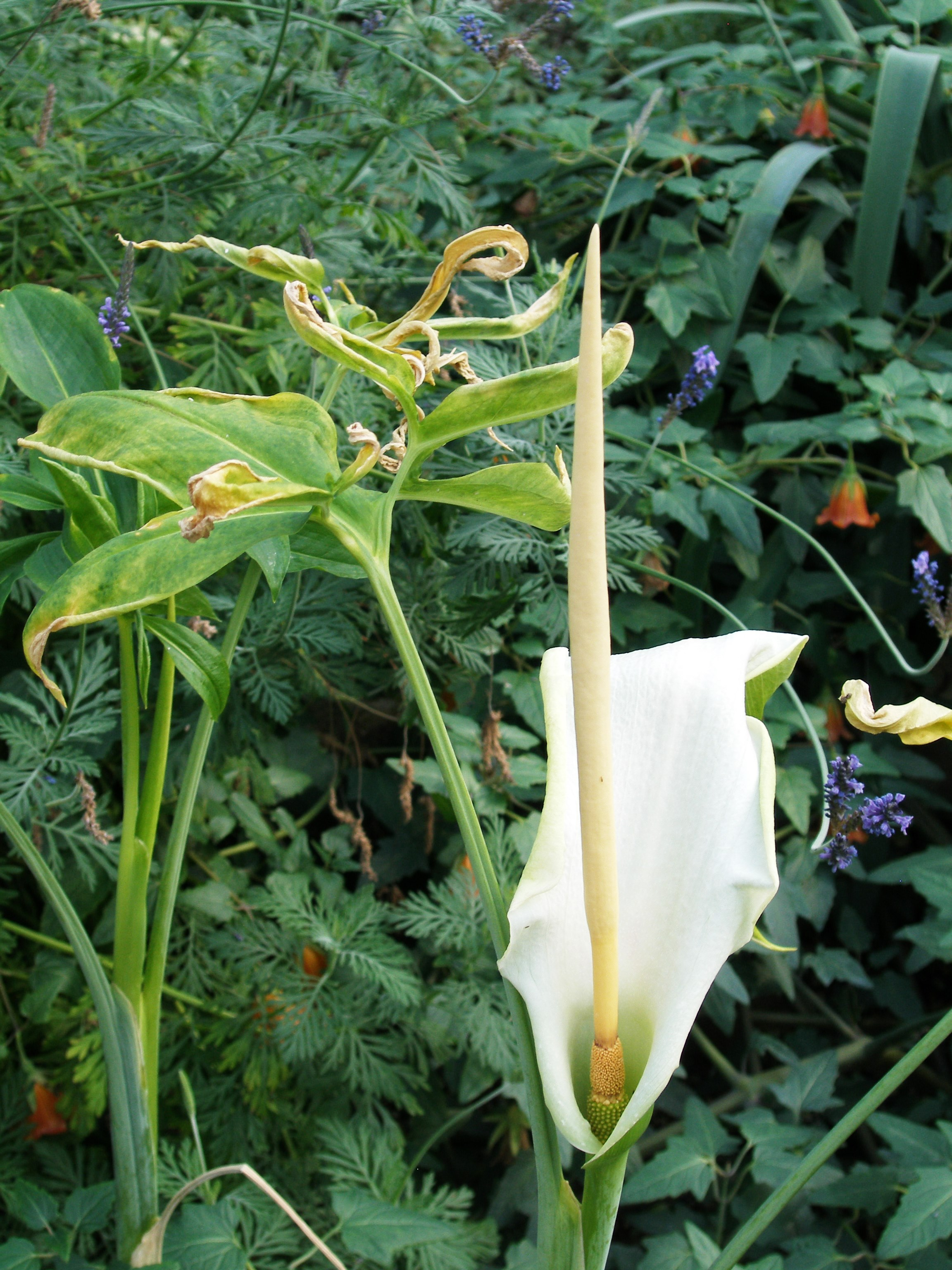 Specimen in cultivation at the Royal Botanic Gardens, Kew, United Kingdom.